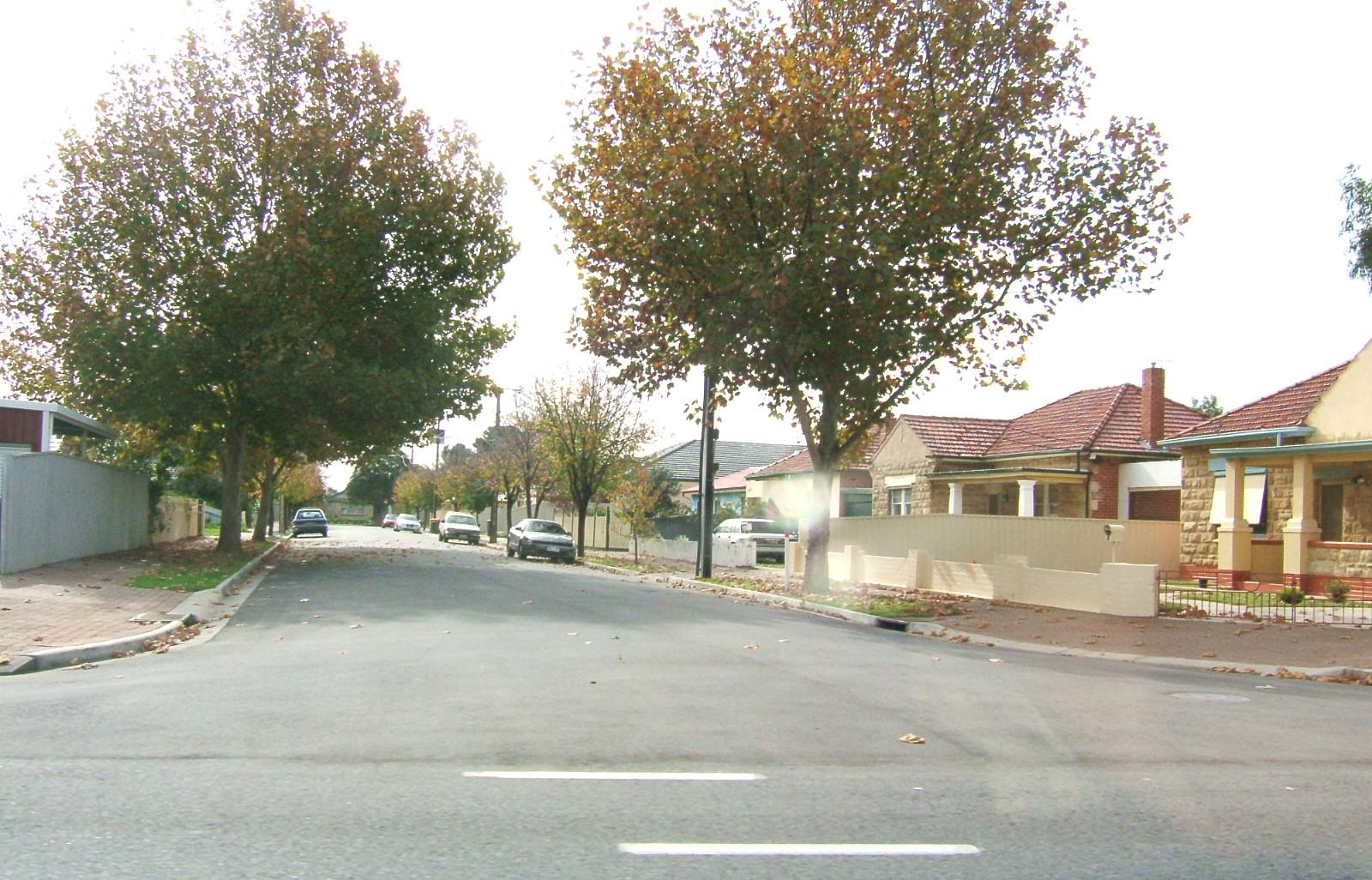 Sir Donald Bradman Drive, Cowandilla, South Australia